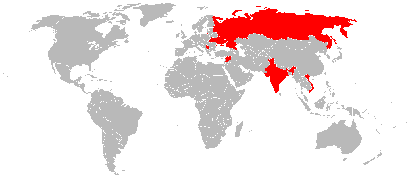 World map of Kamov Ka-25 operators